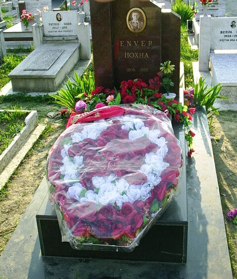 Tirana, capital of Albania